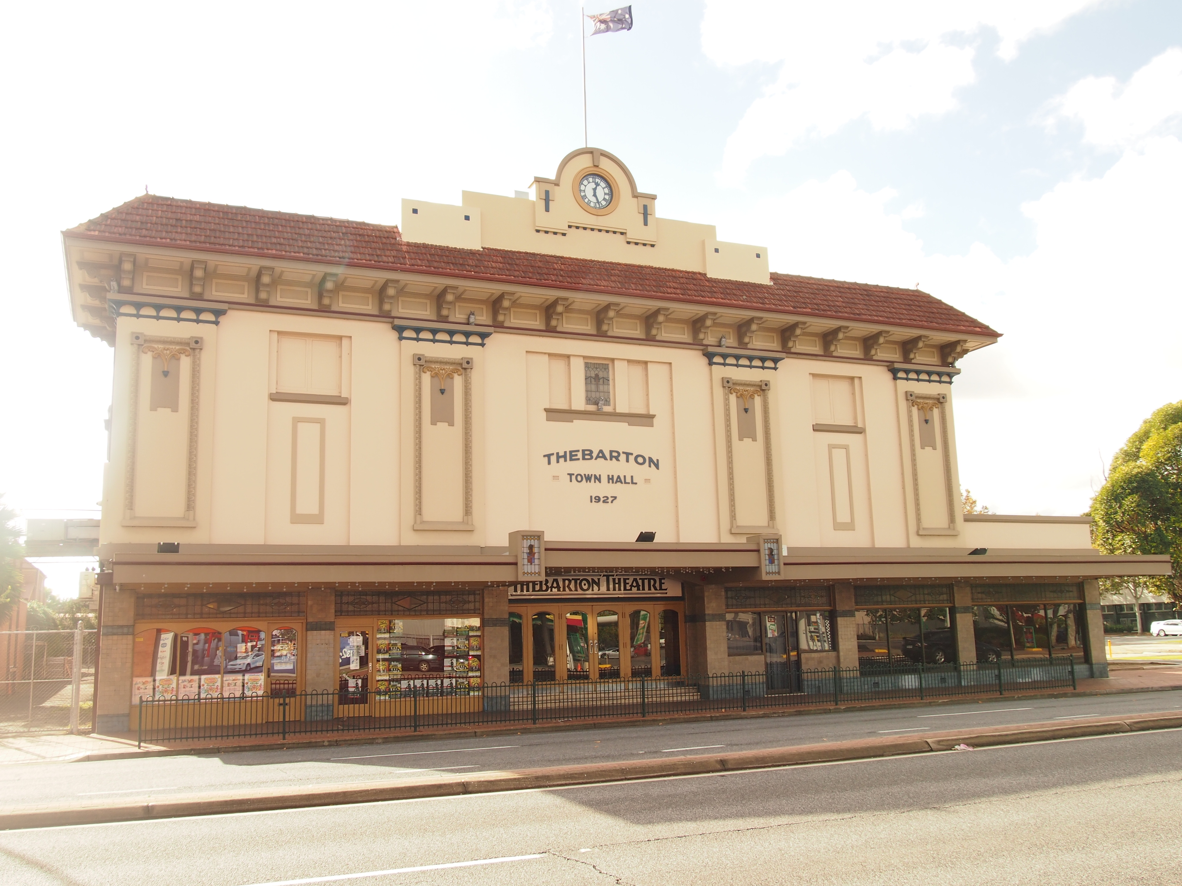 The Thebarton Theatre in Torrensville, South Australia Original filename = P5101997.JPG